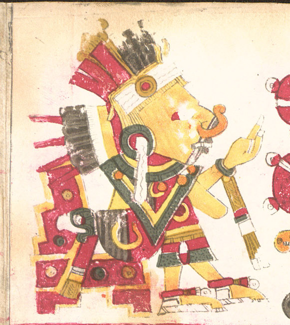 A drawing of Tlazolteotl, one of the deities described in the Codex Borgia